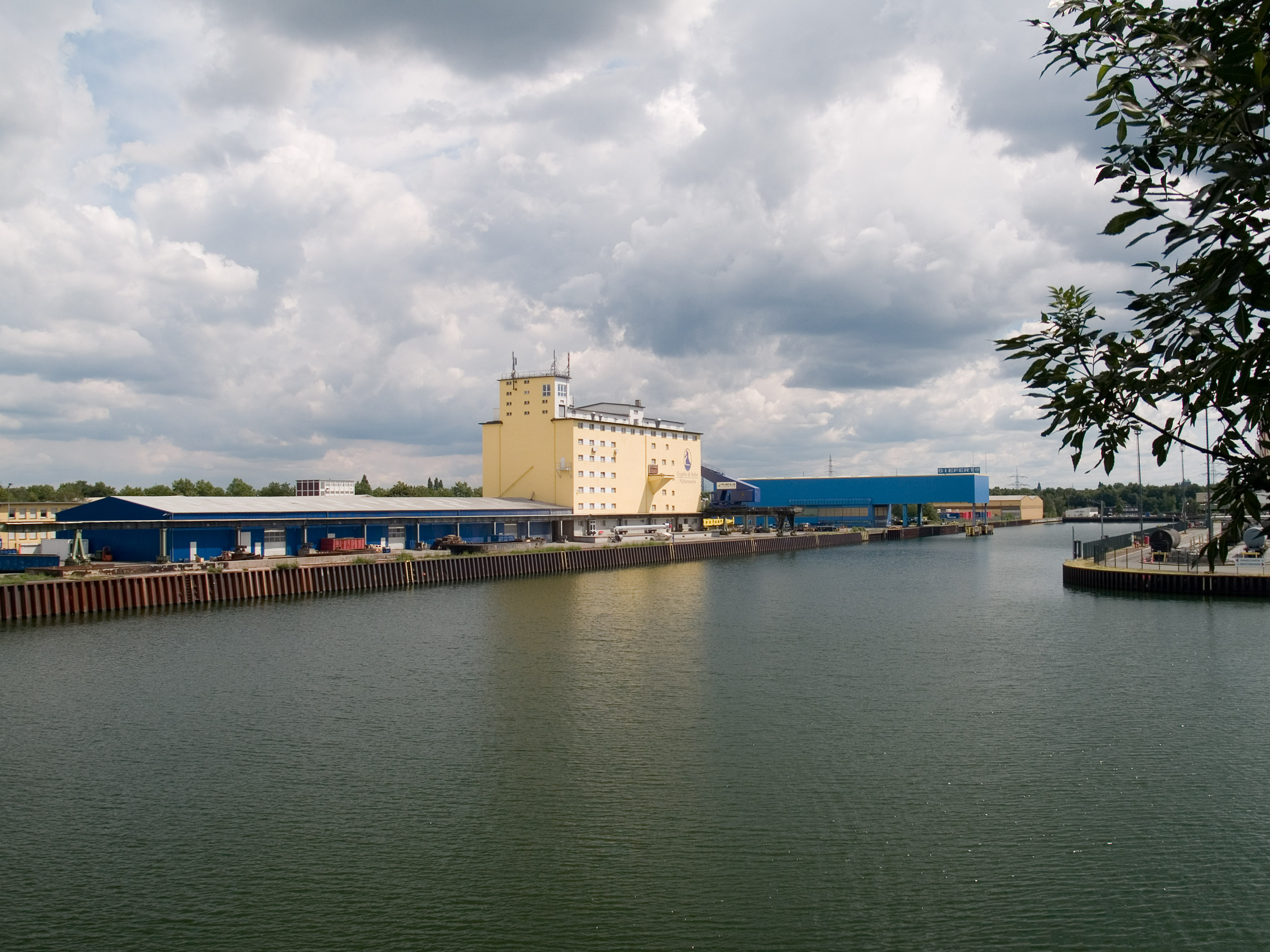 The commercial port of Gelsenkirchen, Germany at the Rhein-Herne-Kanal